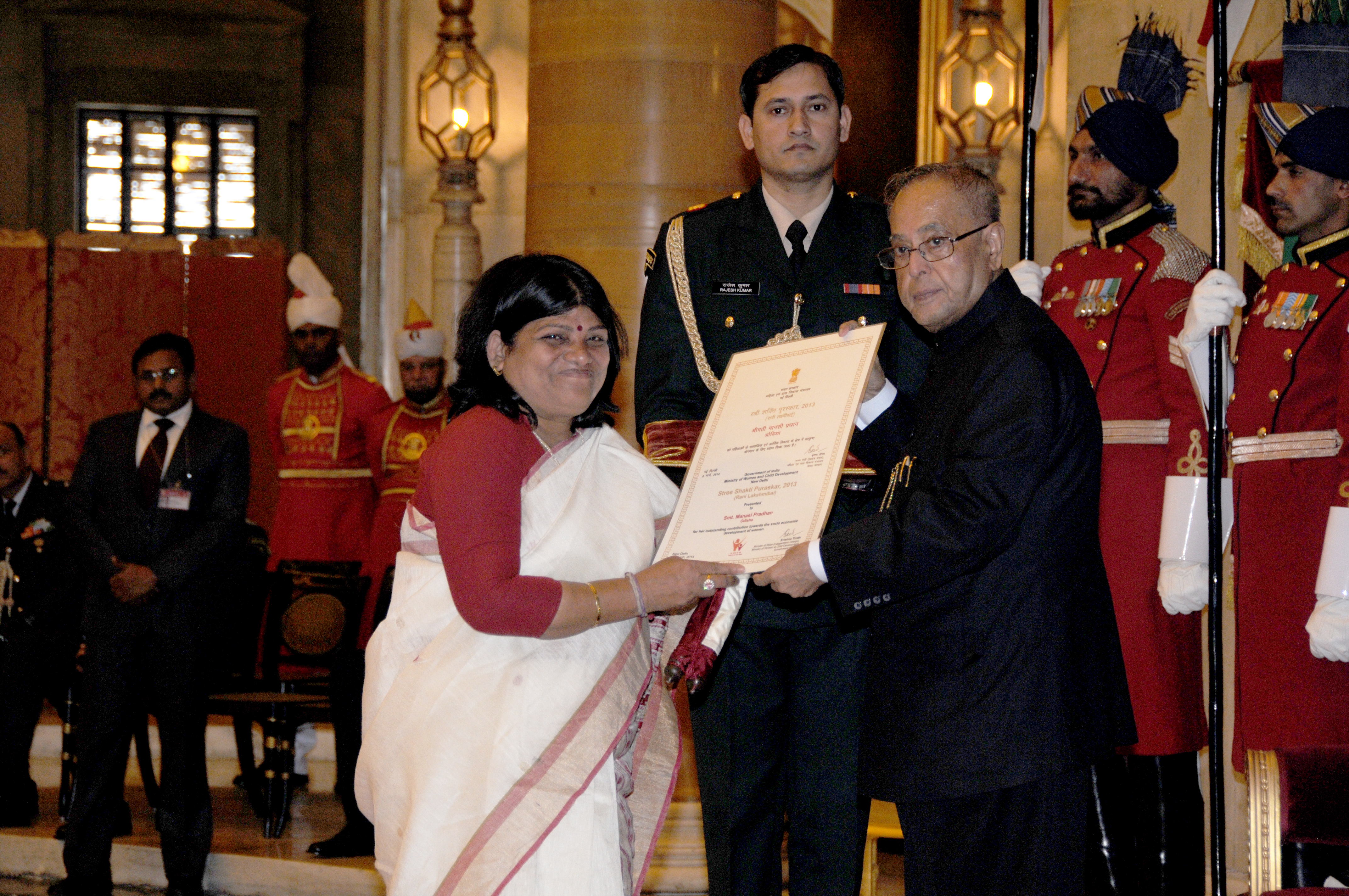 The President Shri Pranab Mukherjee presenting the “Rani Lakshmibai Stree Shakti Puraskar” for the year 2013 to Smt. Manasi Pradhan of Odisha on the occasion of International Women’s Day at Rashtrapati Bhavan in New Delhi on March 08, 2014.